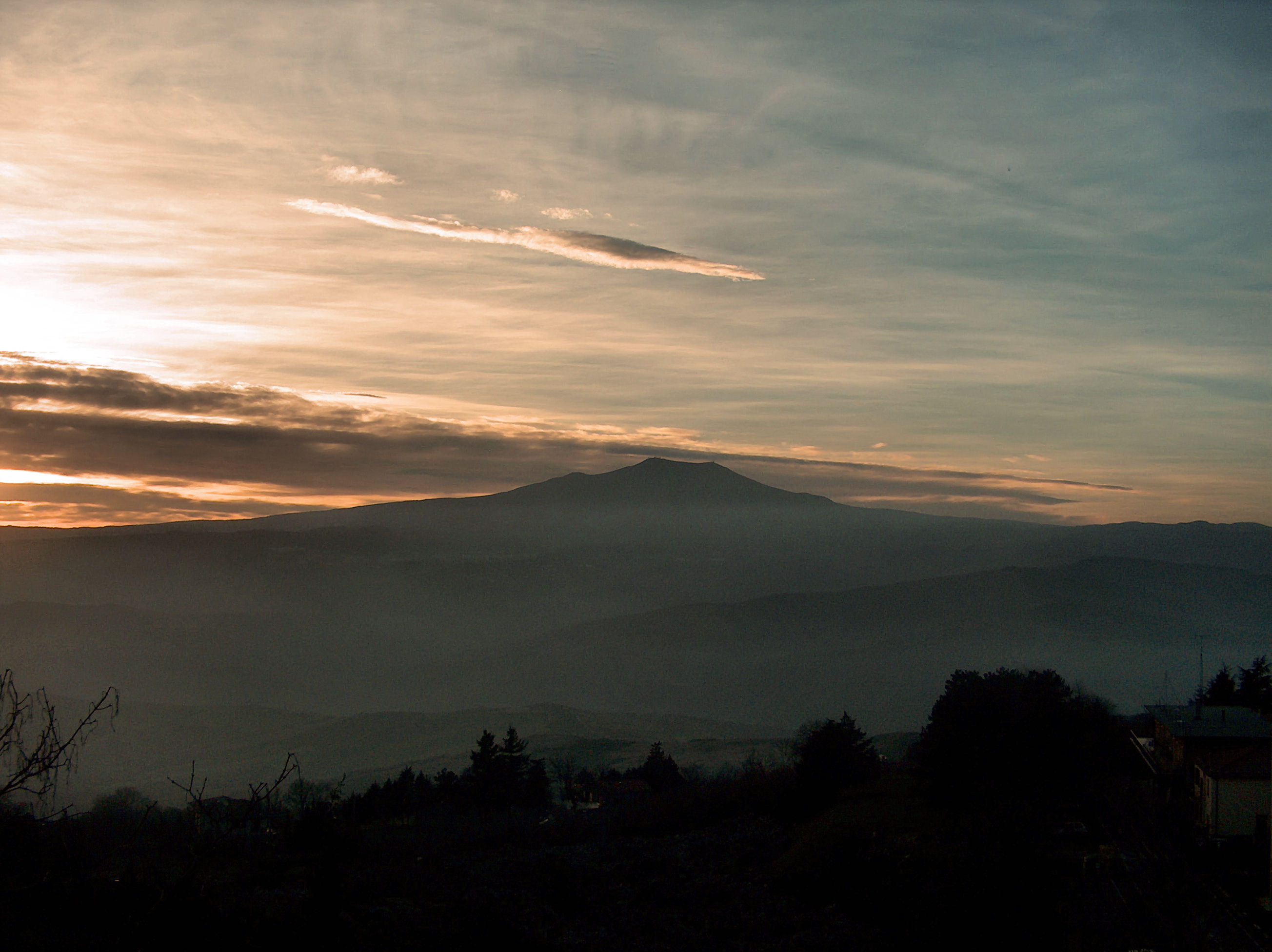 View from Radicofani - Italy